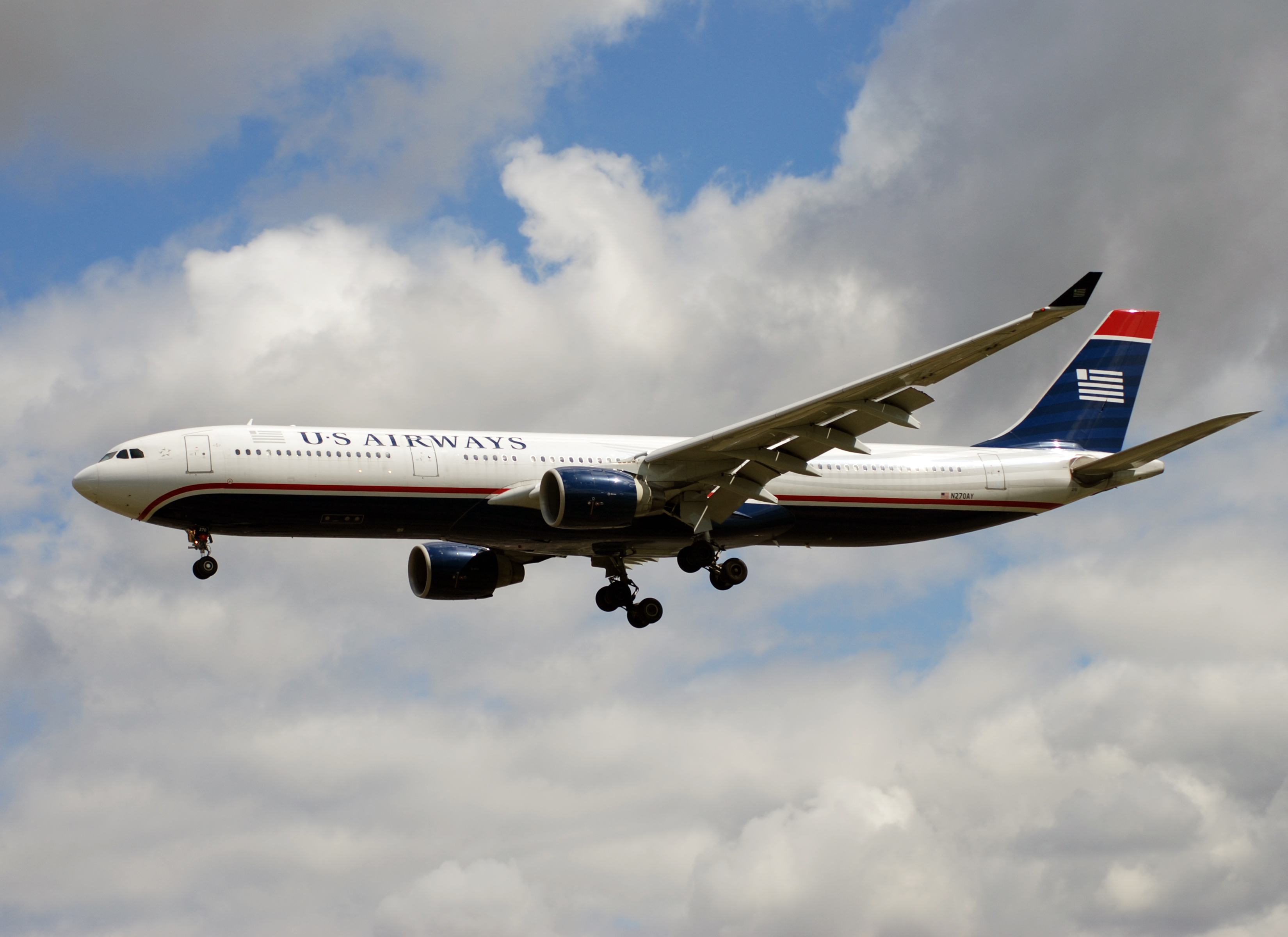 Myrtle Avenue,July 2008